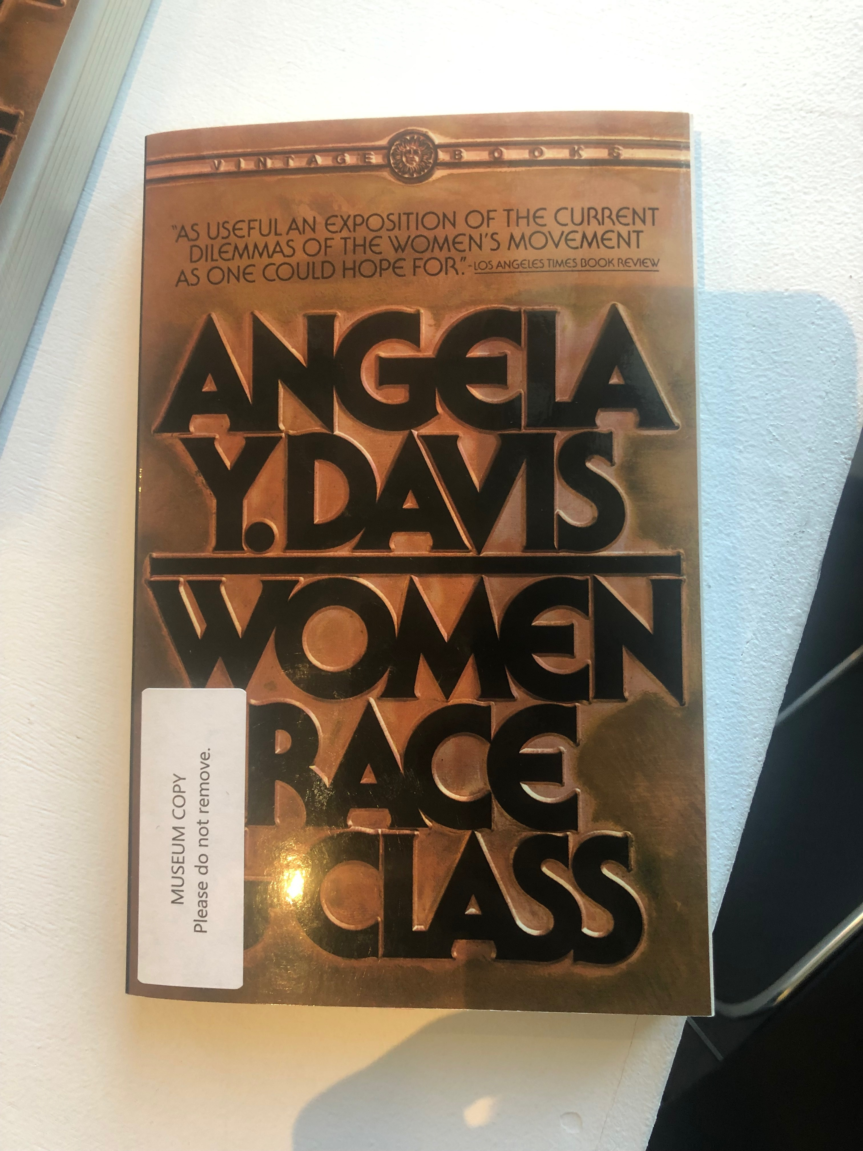 Angela Davis